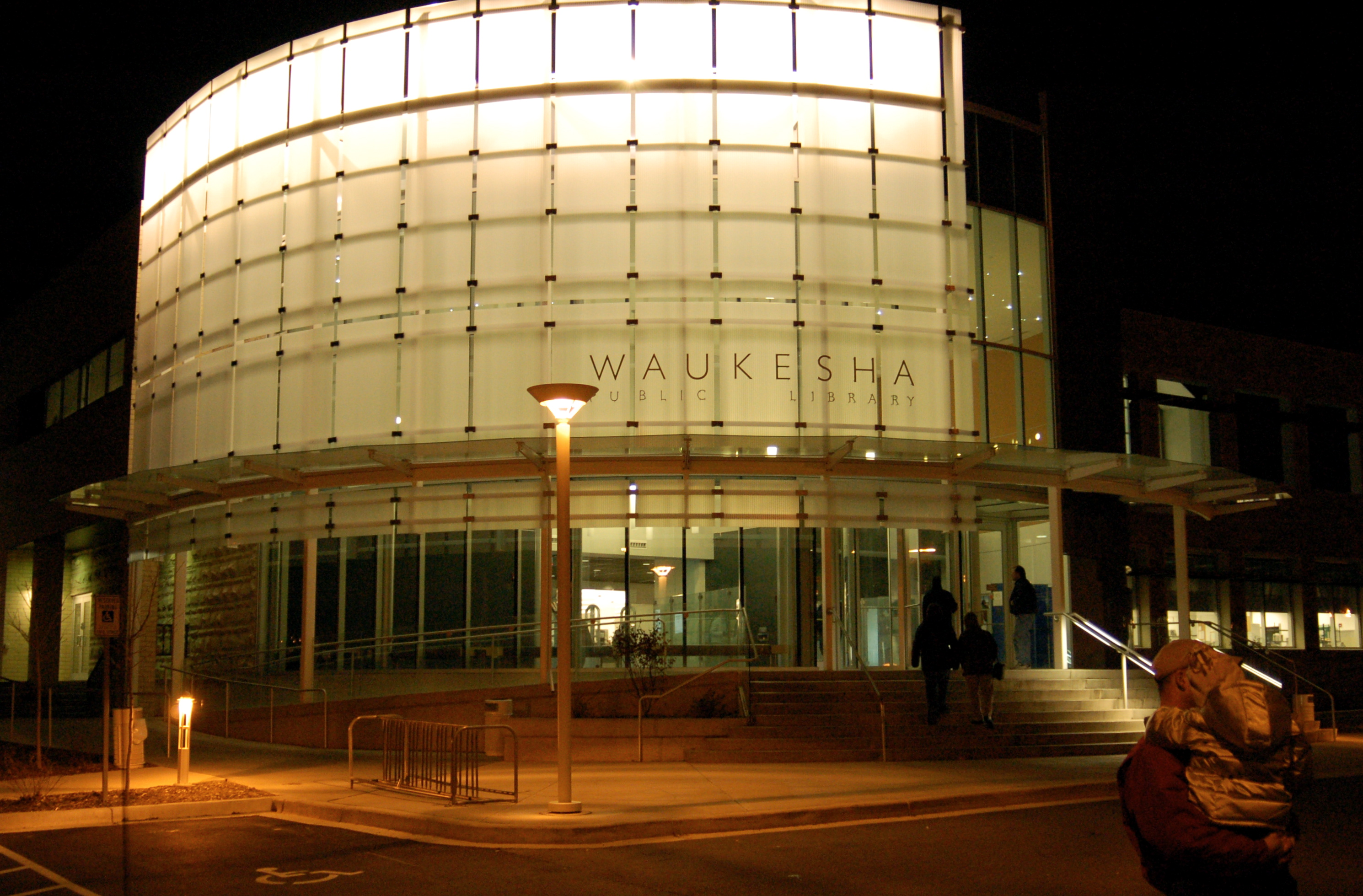 Public Library in Waukesha County, Wisconsin.